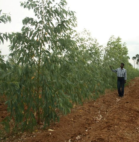 A 2 year old clonal block plantation at Kattumunnur, Karur